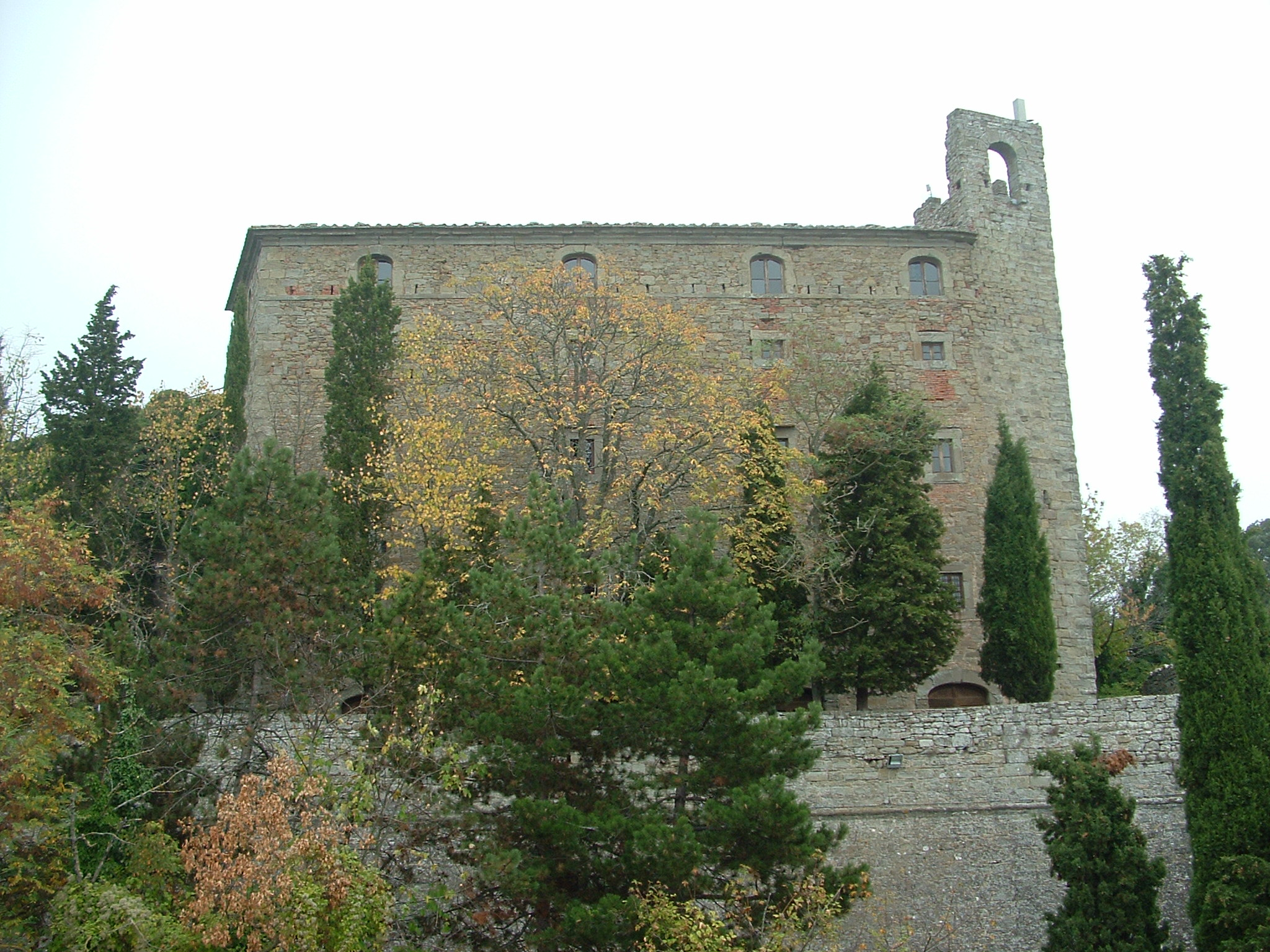 Fortezza Girifalco (Fortezza Medicea) in Cortona, Province of Arezzo, Tuscany, Italy